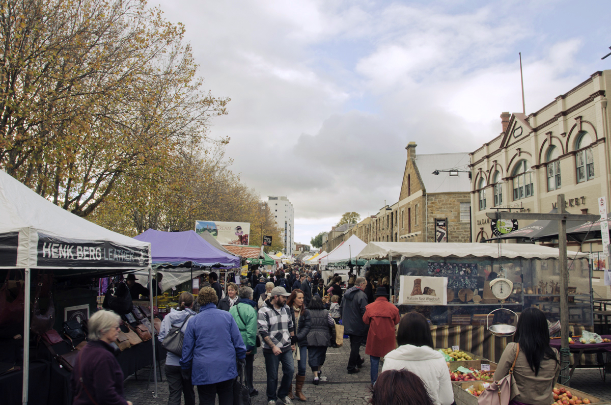 Salamanca Market in Hobart, May 2012.